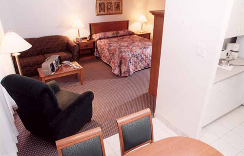 another room picture